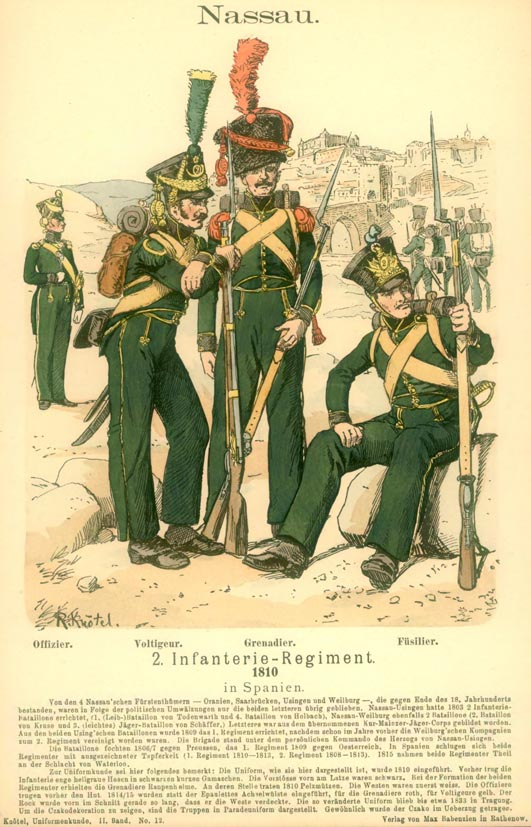 Nassau. 2. Infanterie-Regiment. 1810 in Spanien